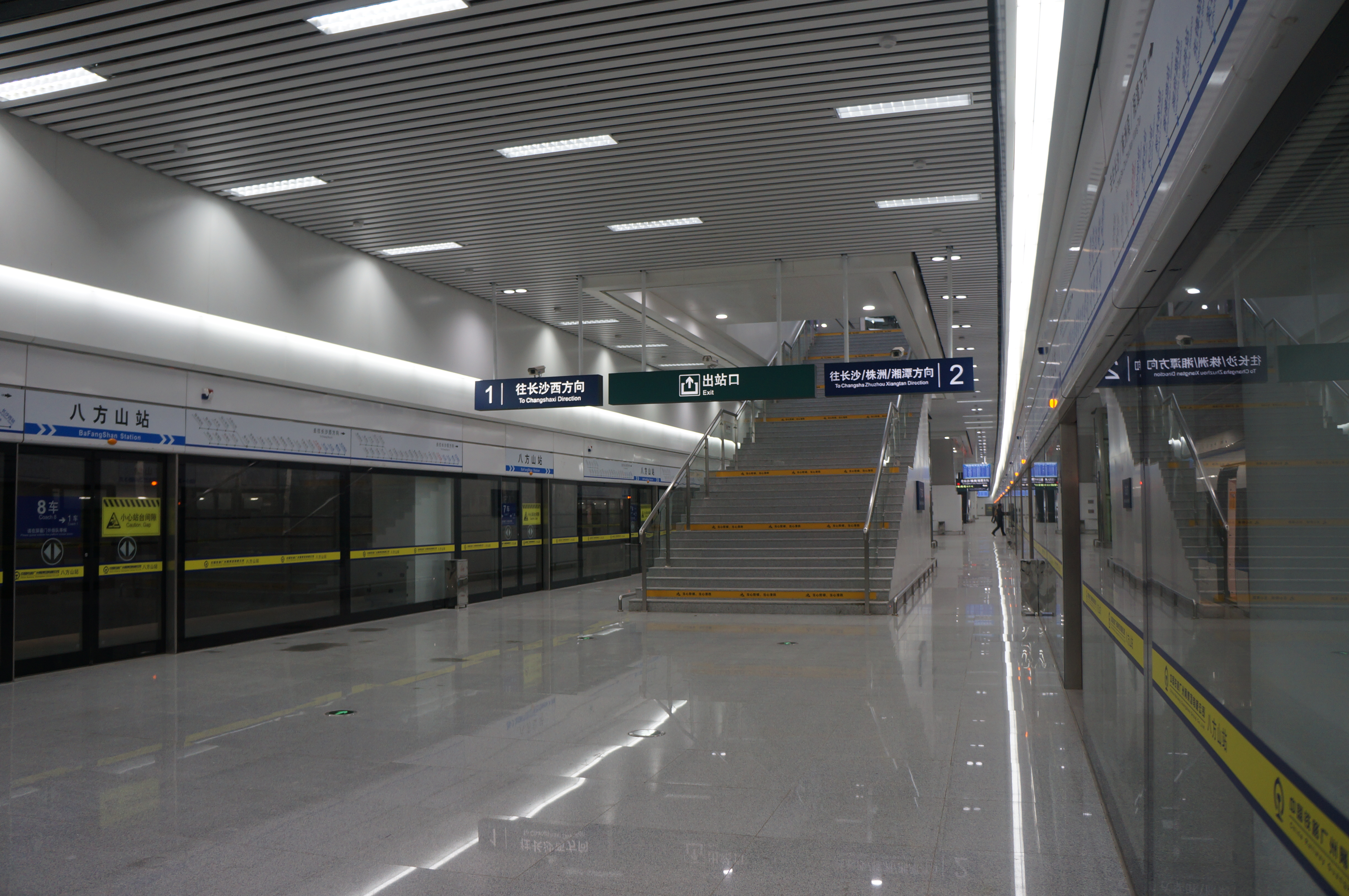 201712 Bafangshan Station